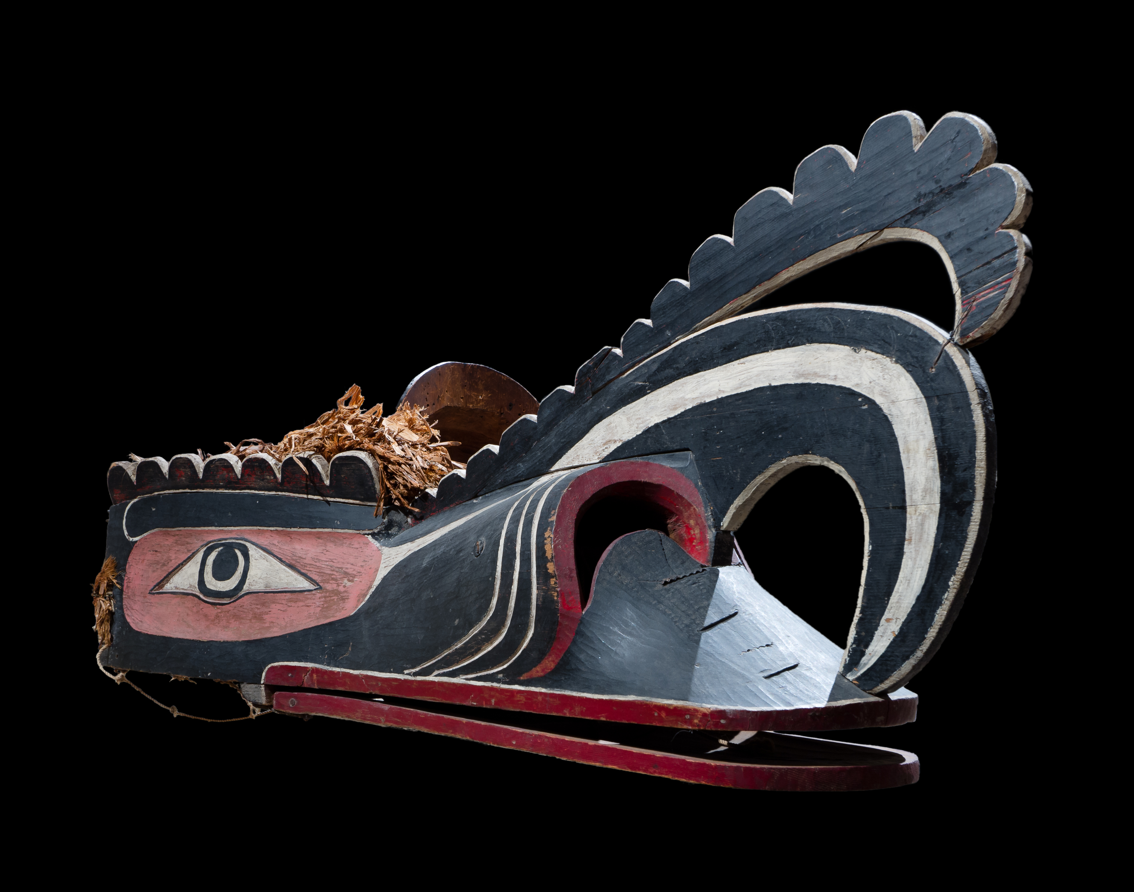 Crooked Beak of Heaven Mask, Kawakwaka'wakw, British Columbia